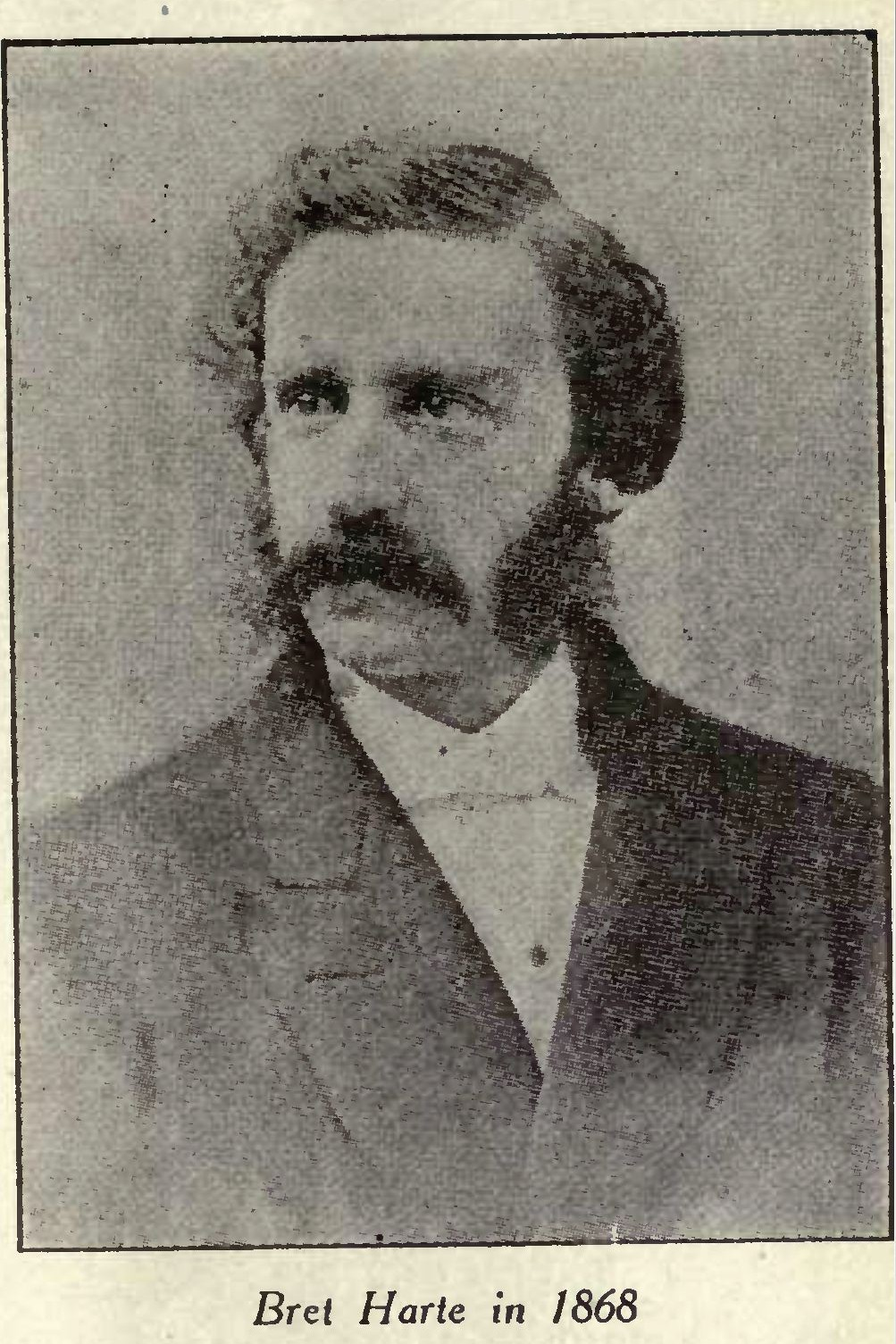 Portrait of Bret Harte 1868 from Overland Monthly, August 1920